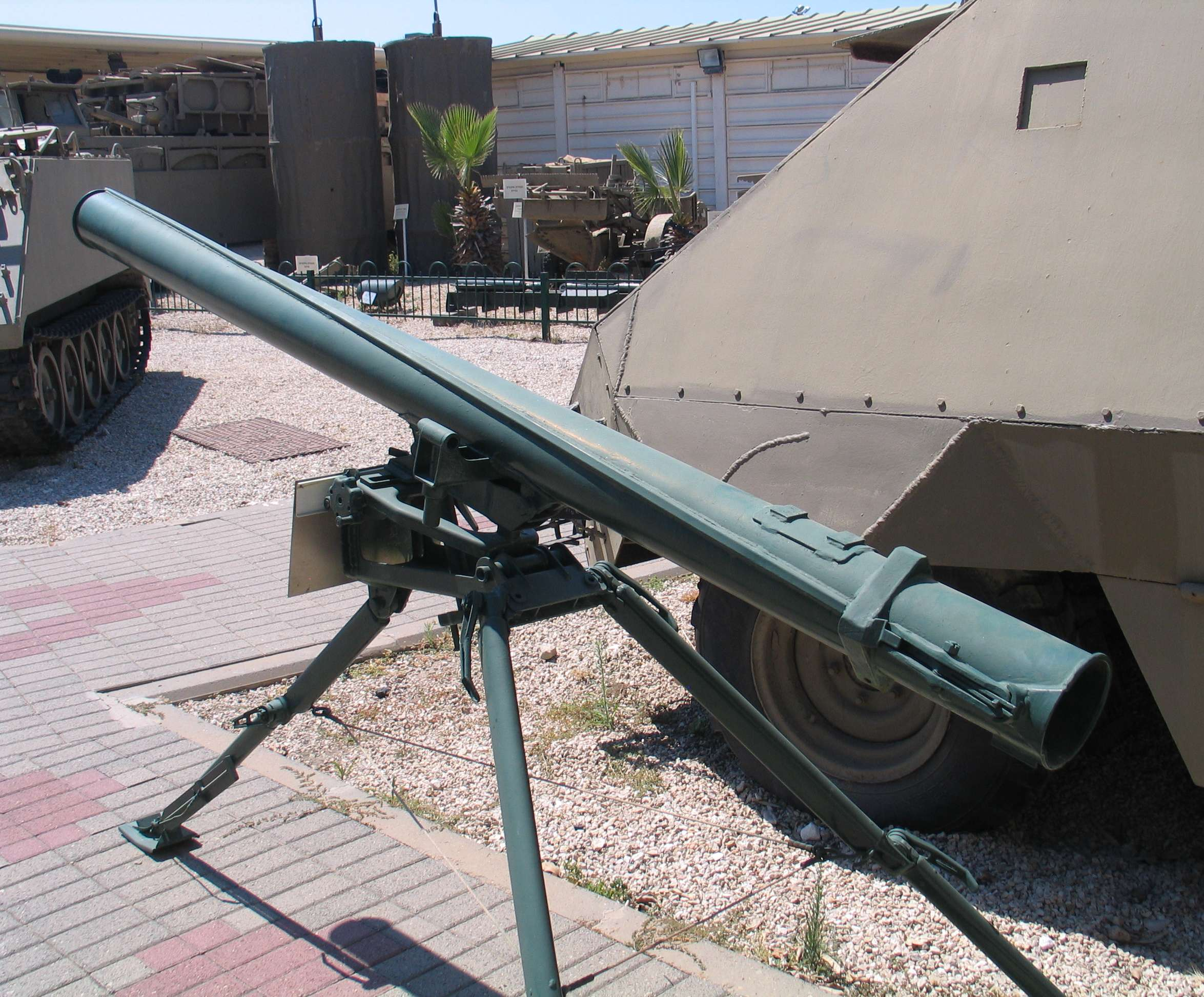 Grad-P in Batey ha-Osef museum, Tel Aviv, Israel.